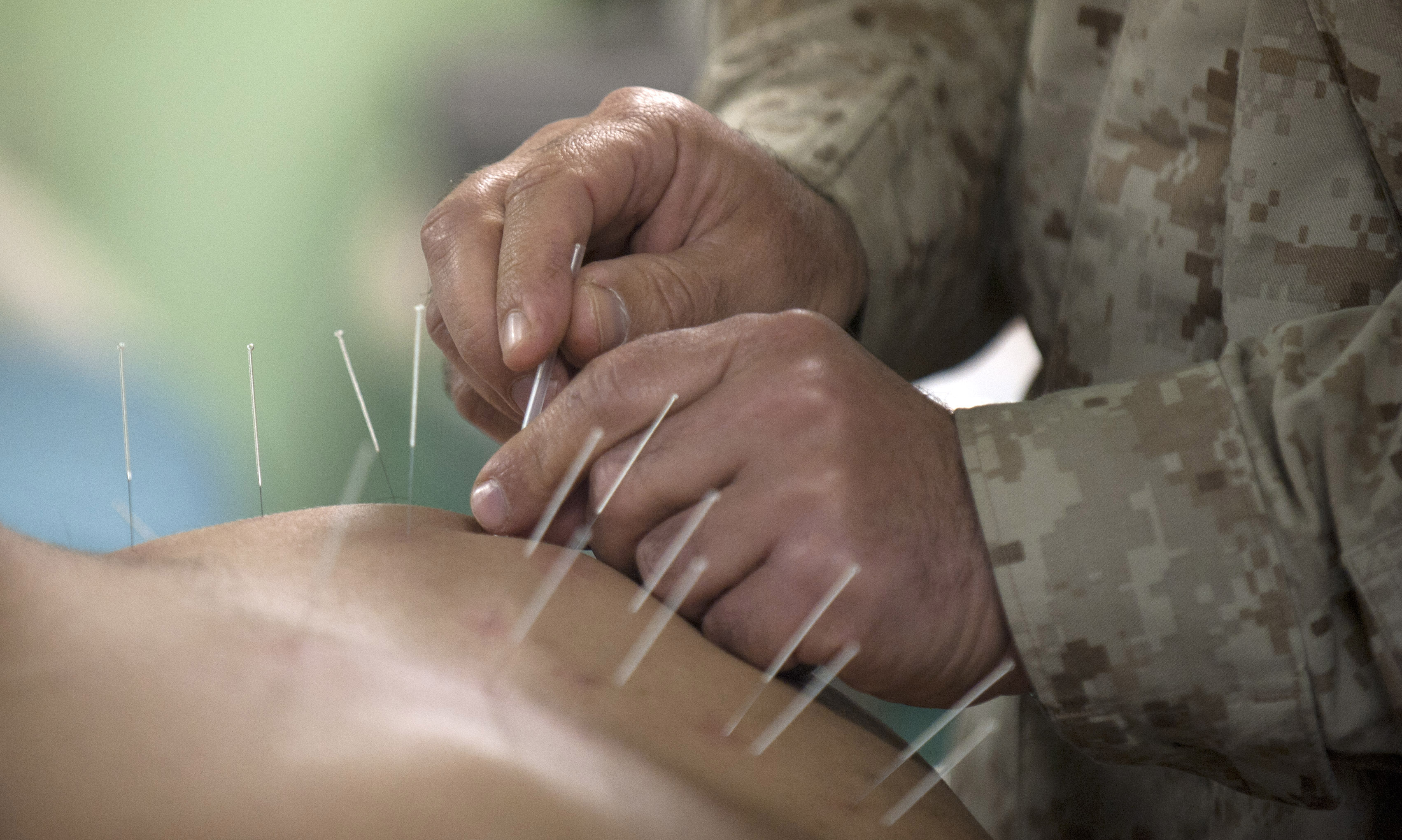 ARABIAN GULF (Feb. 16, 2012) Cmdr. Yevsey Goldberg conducts an acupuncture procedure on a patient aboard the amphibious transport dock ship USS New Orleans (LPD 18). New Orleans and embarked Marines assigned to the 11th Marine Expeditionary Unit (11th MEU) are deployed as part of the Makin Island Amphibious Ready Group, supporting maritime security operations and theater security cooperation efforts in the U.S. 5th Fleet area of responsibility. (U.S. Navy photo by Mass Communication Specialist 2nd Class Dominique Pineiro/Released) 120216-N-PB383-414